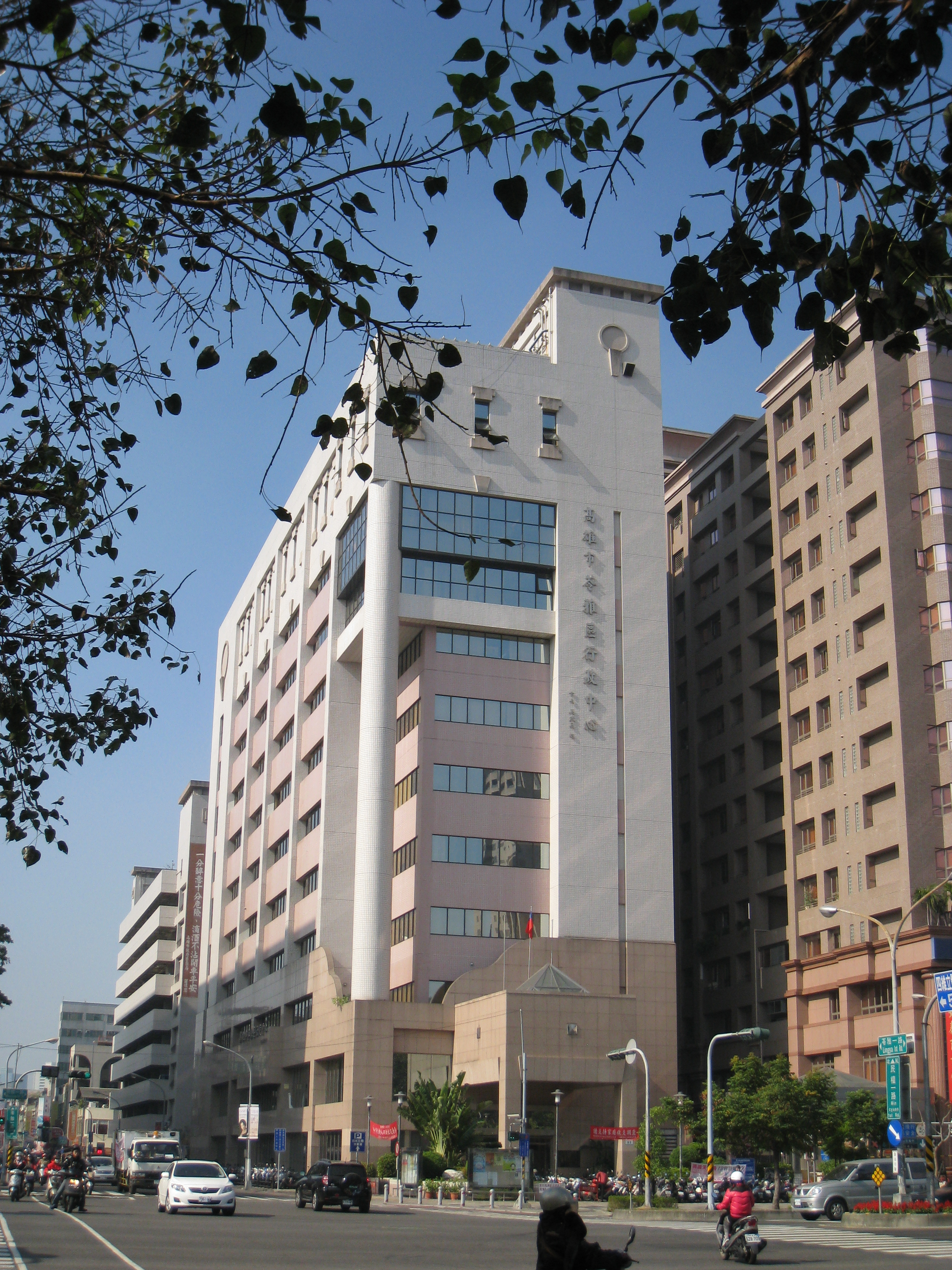 Administration Center of Lingya District